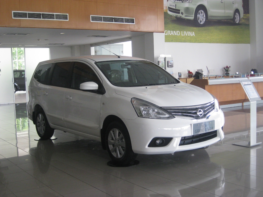 2013 Nissan Grand Livina 1.5 XV (L11), photographed in Jakarta, Indonesia.